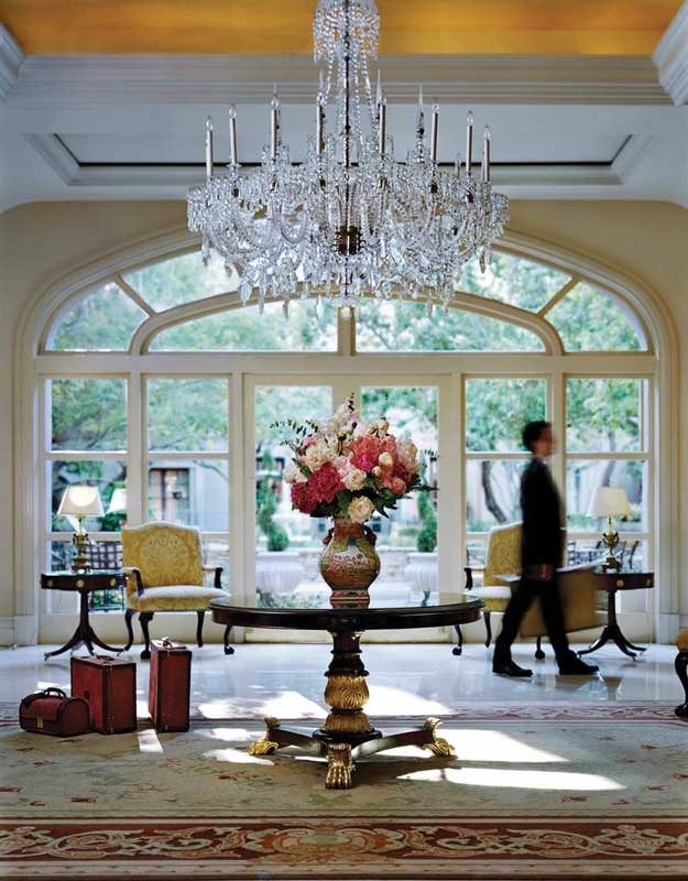 The Langham